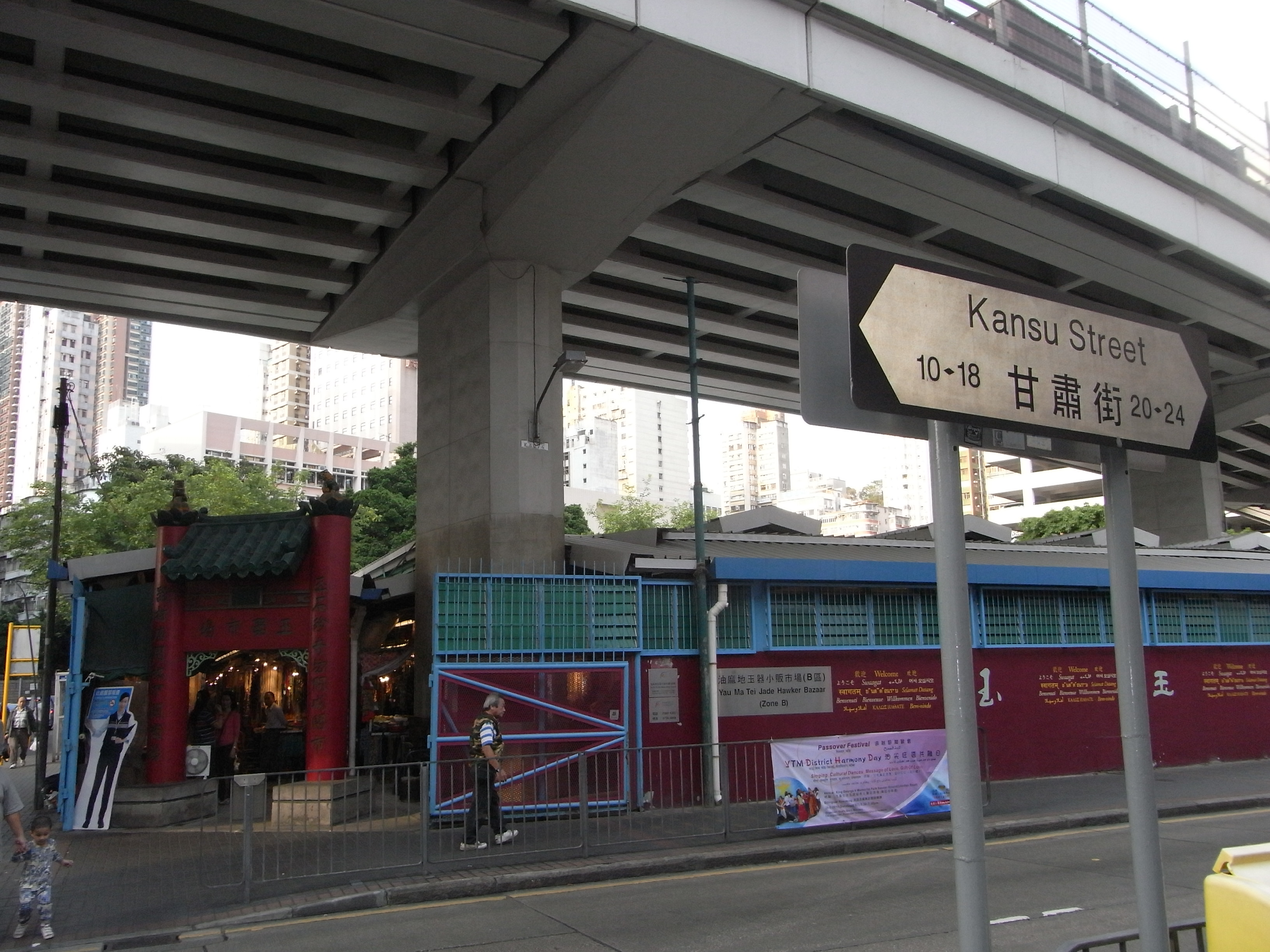 油麻地 甘肅街 油麻地玉器小販市場 背景為加士居道zh:行車天橋